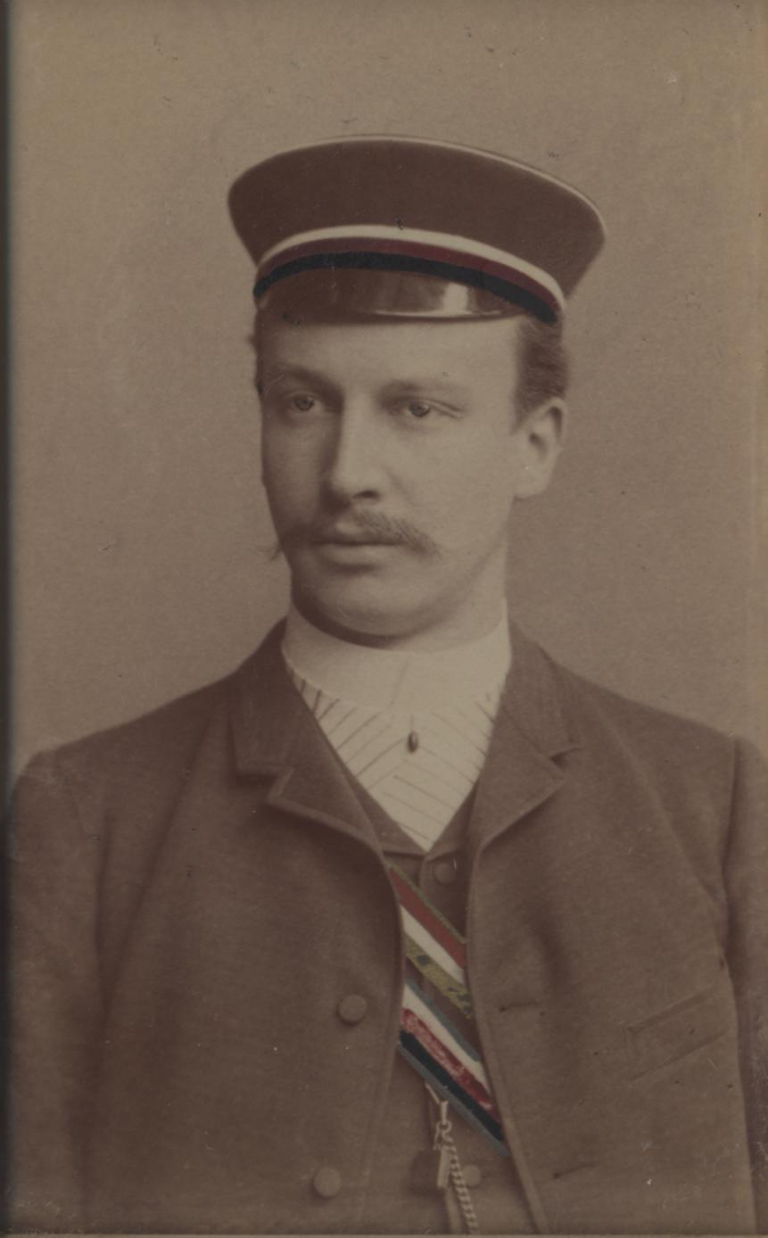 Photography of Gustav Bachus as student and member of the Corps Hansea Königsberg and Corps Thuringia Jena